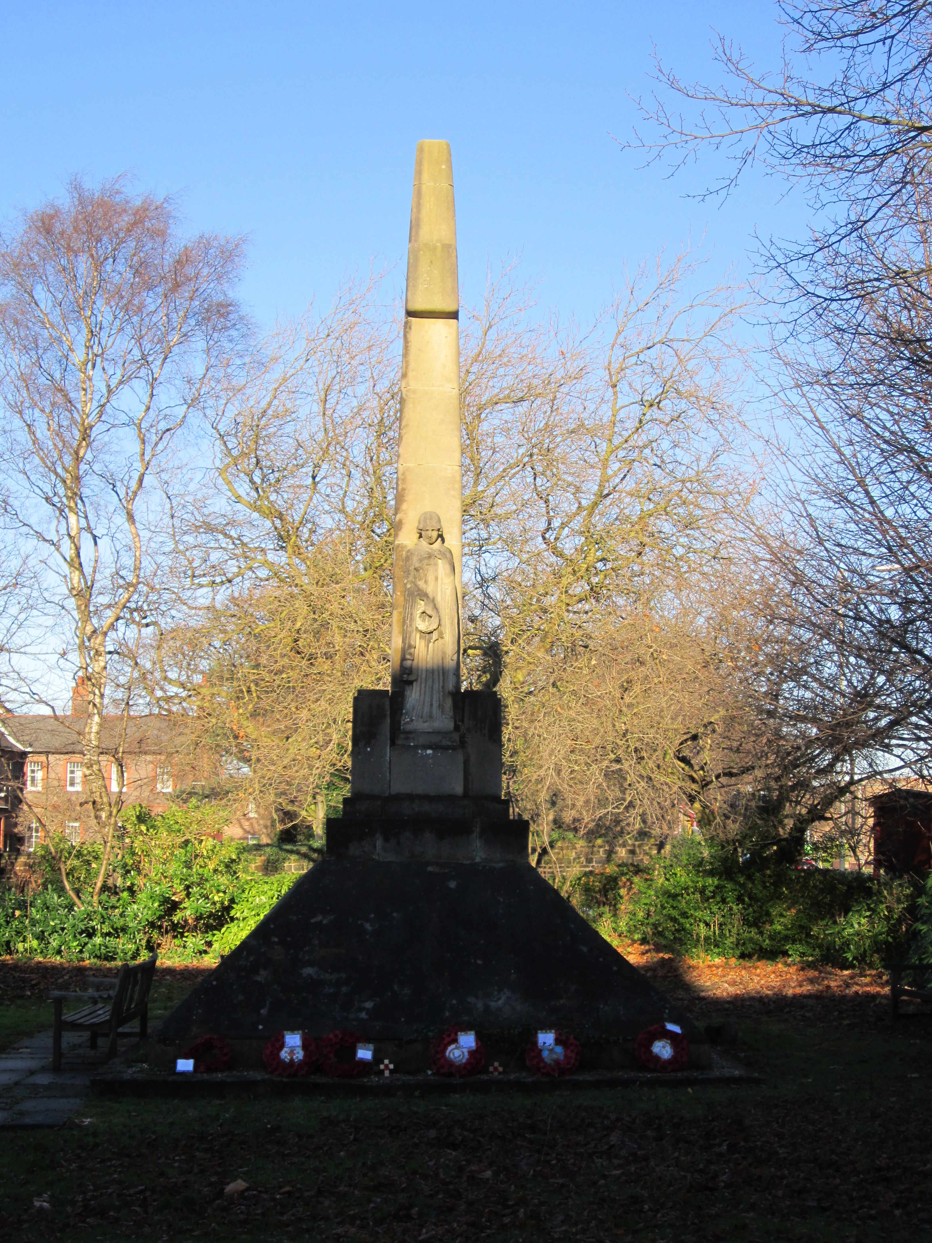 Photo taken at Holy Trinity church, Wavertree, Liverpool, England.